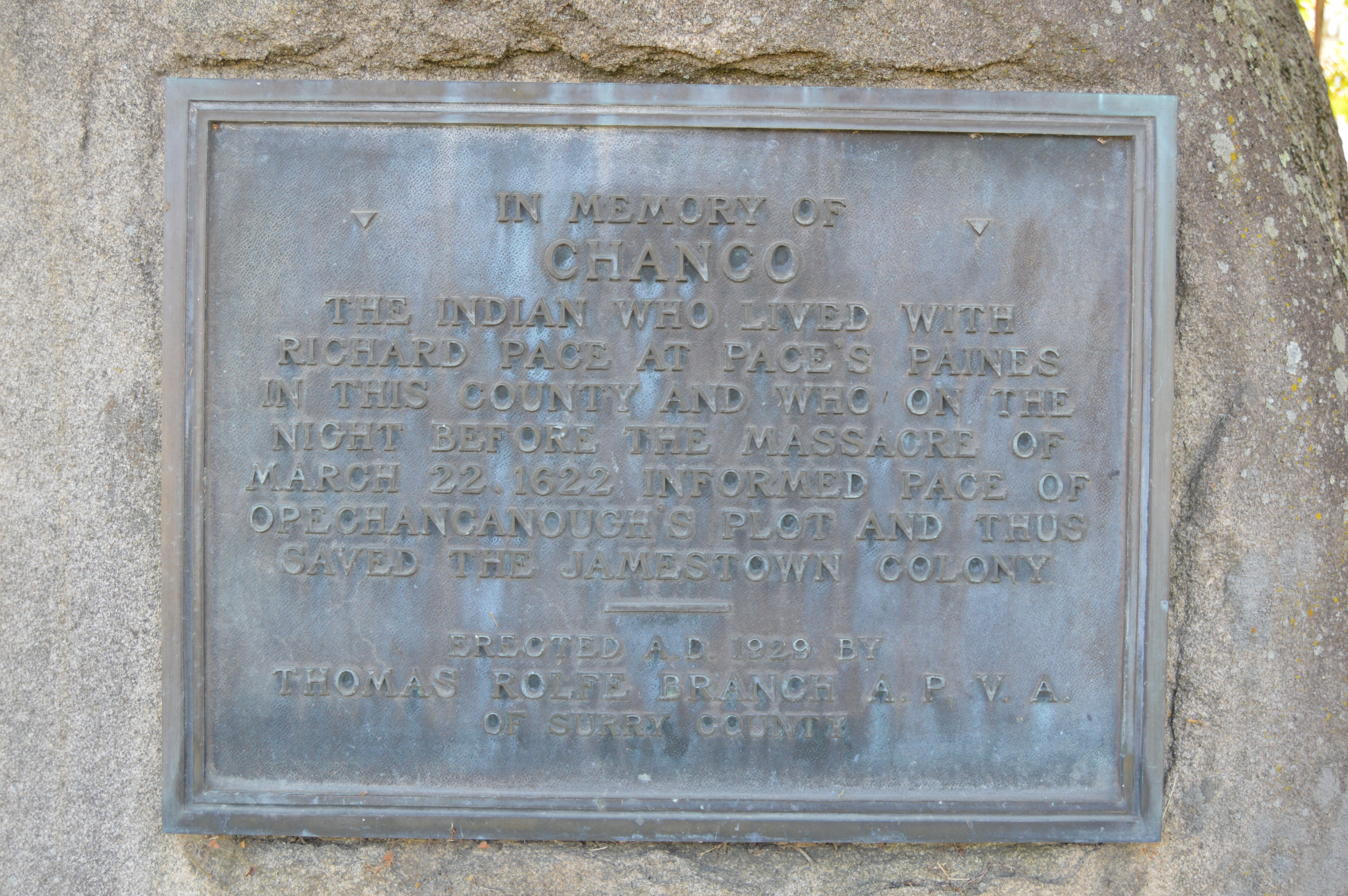 Memorial to Chanco, sitting on the Surry County Courthouse lawn, at the intersection of State Routes 10/31, in Surry, Virginia, United States. The original item is PD-US-no notice , having been placed in 1929 with no copyright notice.